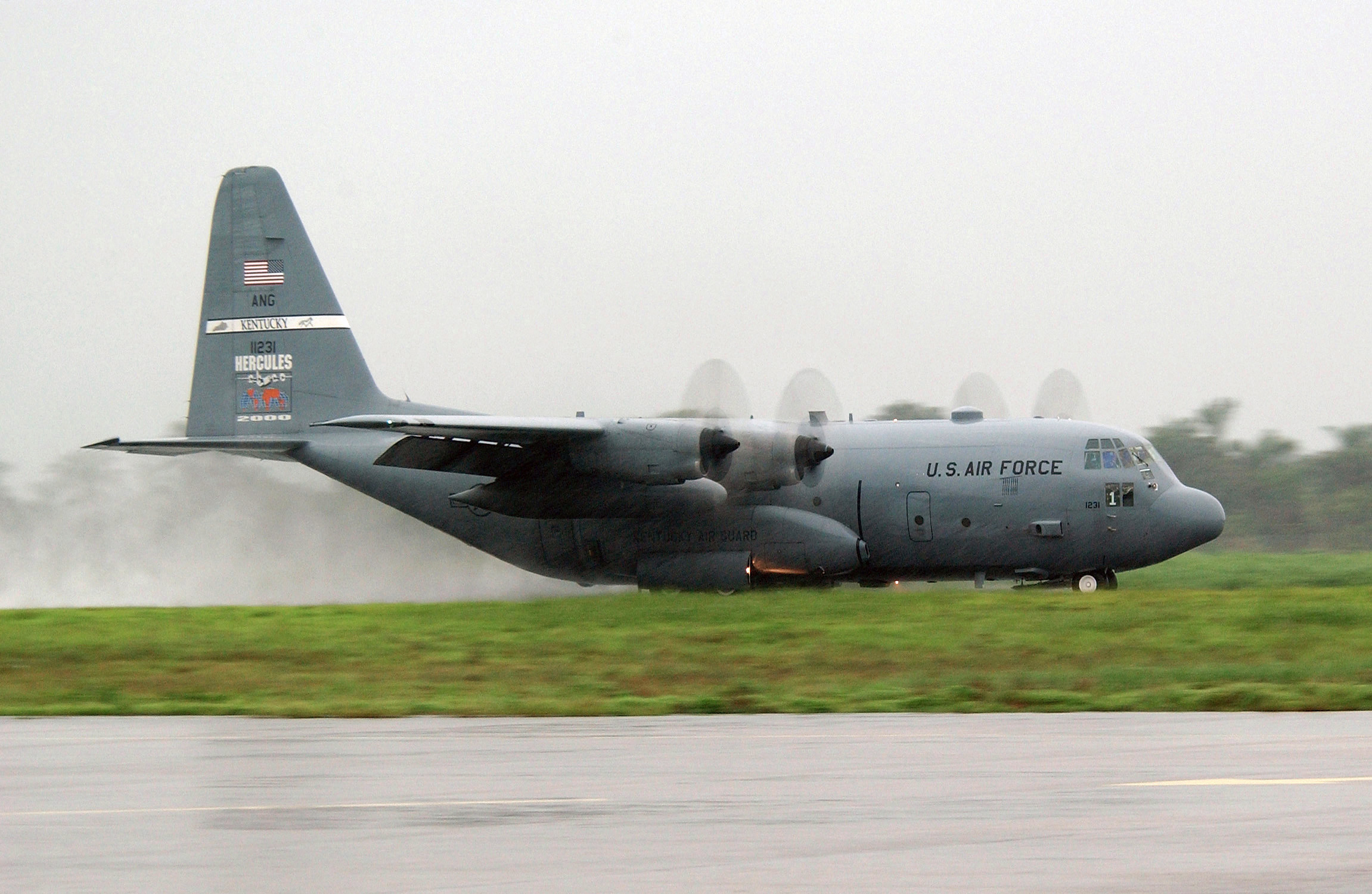 A U.S. Air Force Lockheed C-130H Hercules (s/n 91-1231) from the 165th Airlift Squadron, 123rd Airlift Wing, Kentucky Air National Guard, lands at Lungi, Sierra Leone, on 21 July 2003. The Herkules was transporting a U.S. Marine Corps "Fleet Anti-terrorism Security Team" (FAST) from U.S. Naval Air Station Rota, Spain, to Sierra Leone.